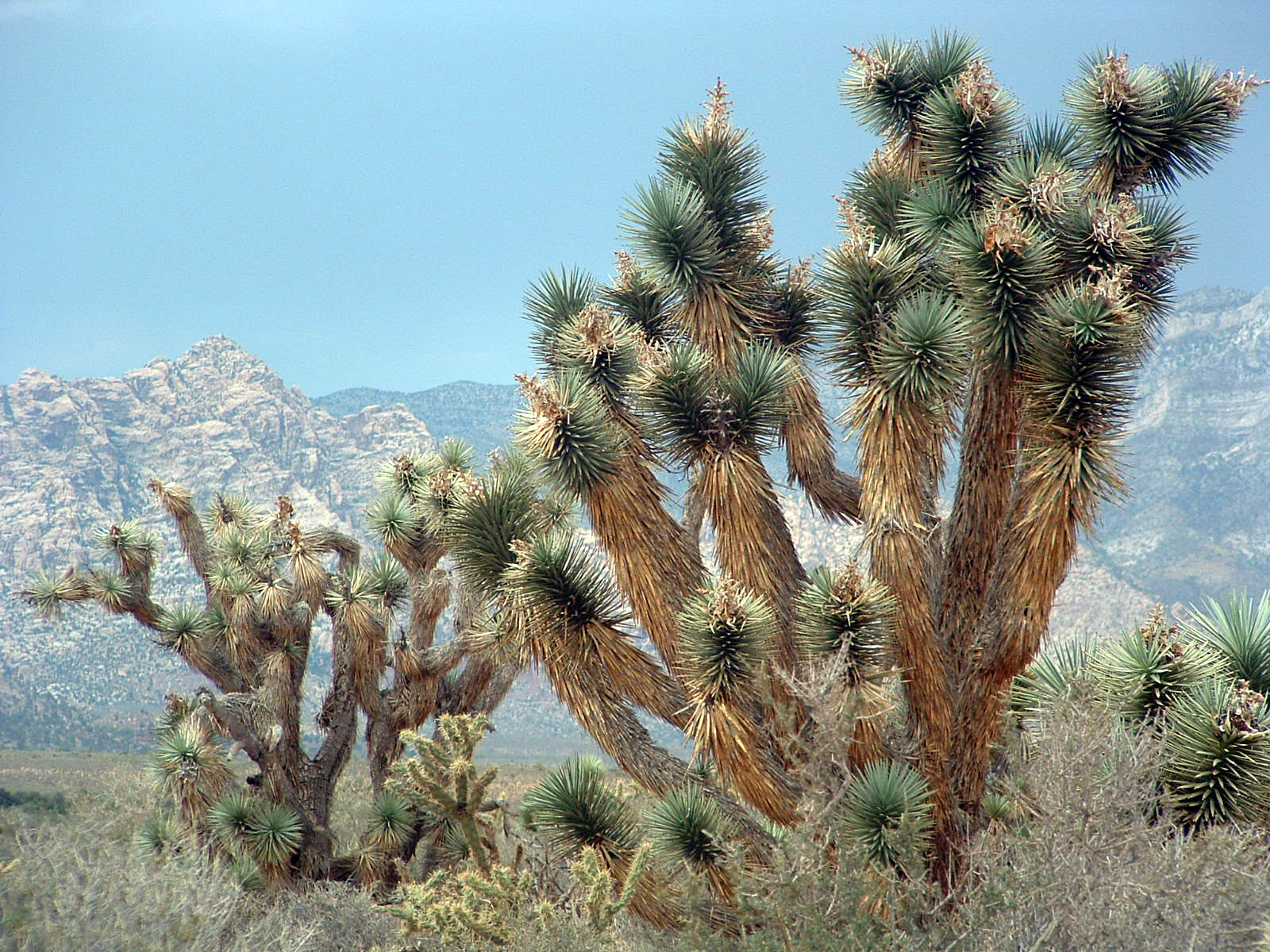 West of Vegas: Desert scene with Joshua Tree grove (Yucca brevifolia), near Red Rock Canyon Park, west of Las Vegas.